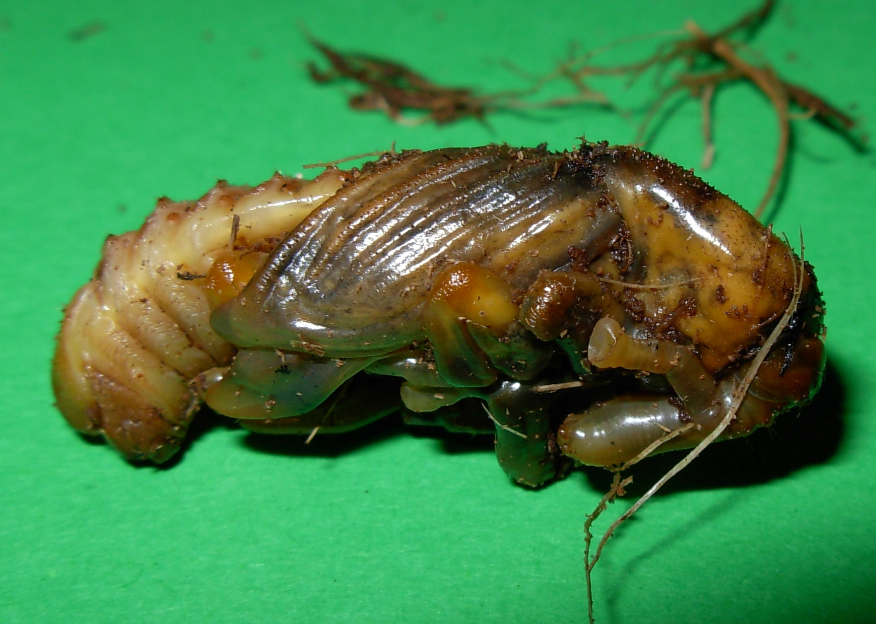 Rhynchophorus ferrugineus pupa